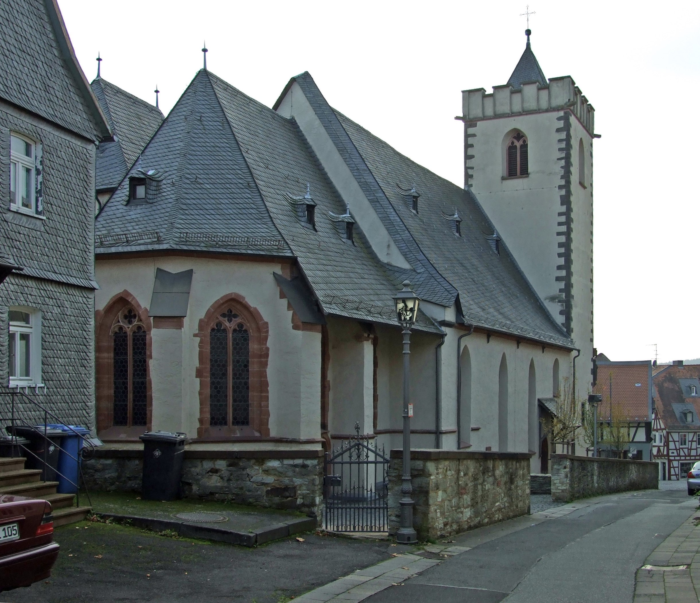 Stadtkirche St. Johann (Protestant) in Kronberg im Taunus, Germany